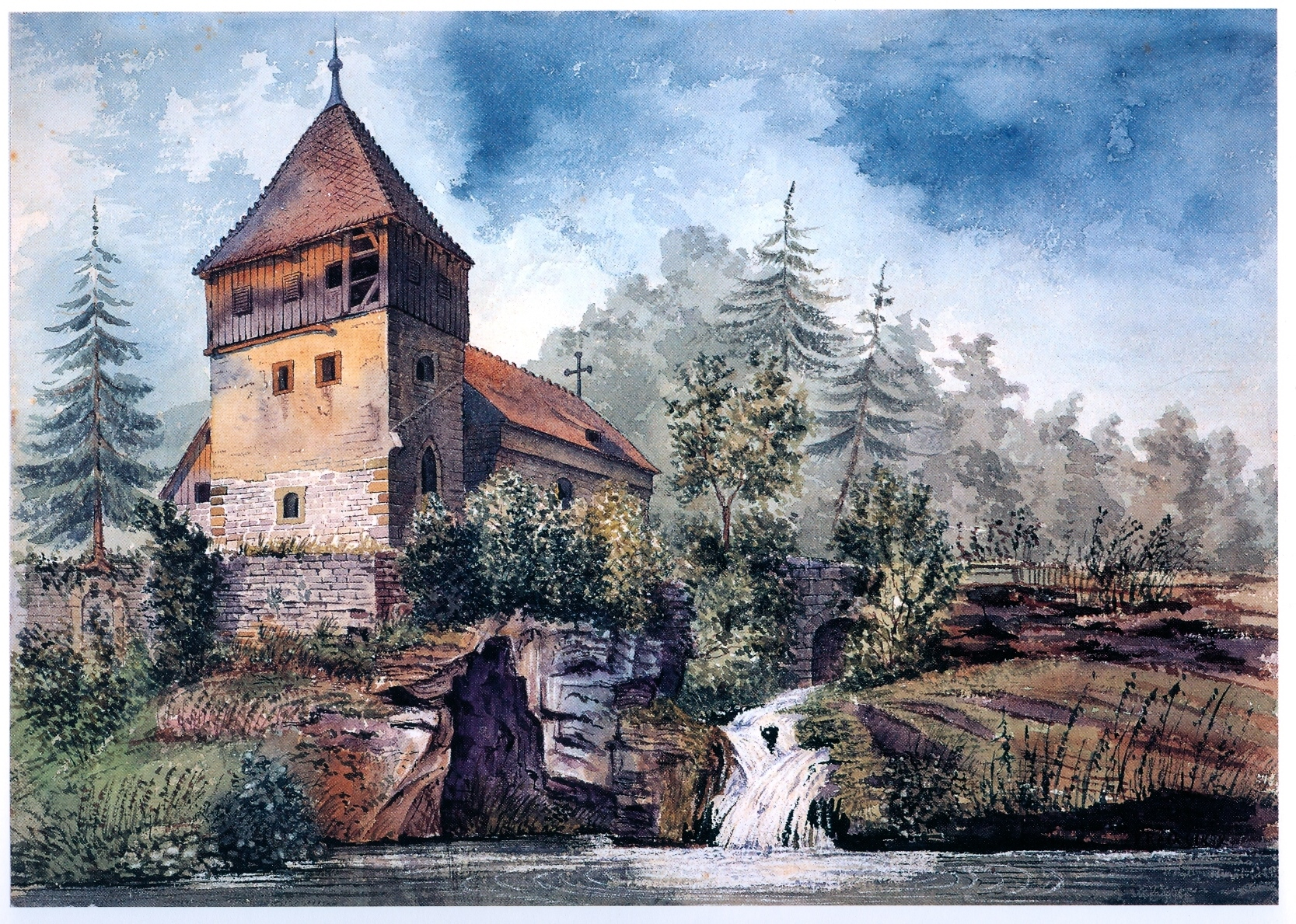 Kirche St. Bartholomäus in Anhausen (Sulzdorf (Schwäbisch Hall)), bis zur Reformation Filiale der Stöckenburg, danach Kirche der Bühlerpfarrei mit Sitz in Vellberg, 1837 Verlegung der Pfarrei nach Sulzdorf, 1863 aufgegeben und abgebrochen.jpg